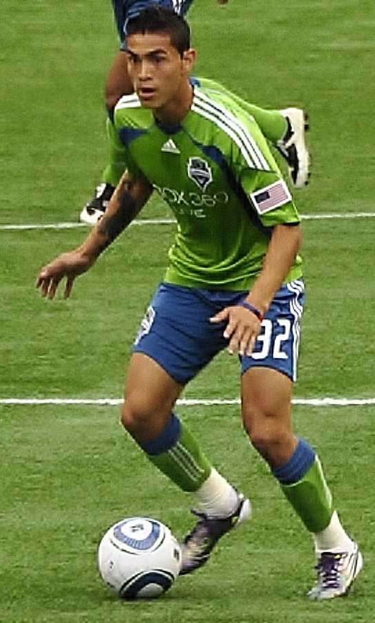 Miguel Montano during Sounders FC v. FC Dallas on July 11, 2010